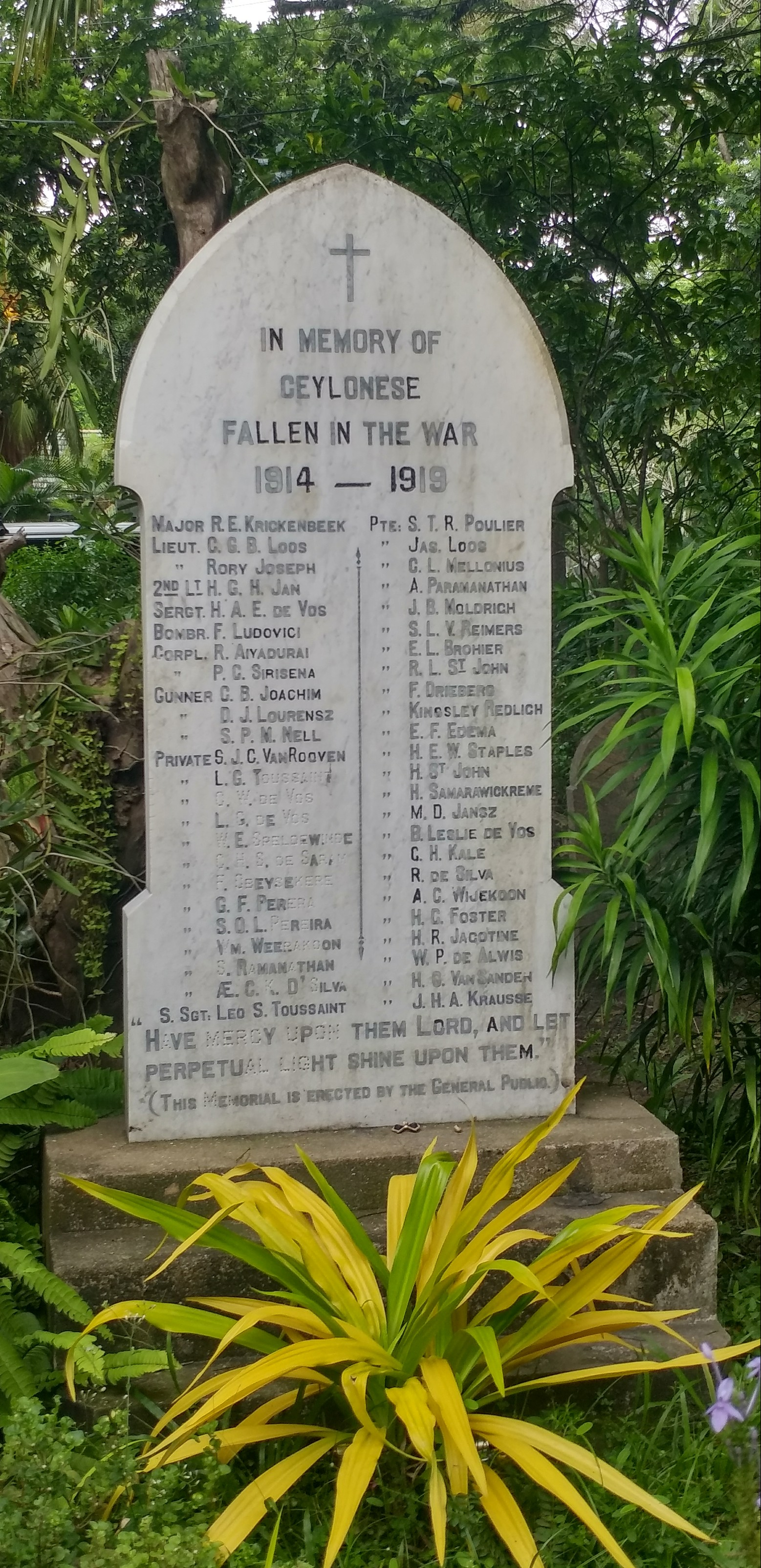 Headstone for the Ceylonese officers killed in action during World War 1, Colombo General Cemetery, Borella, Sri Lanka